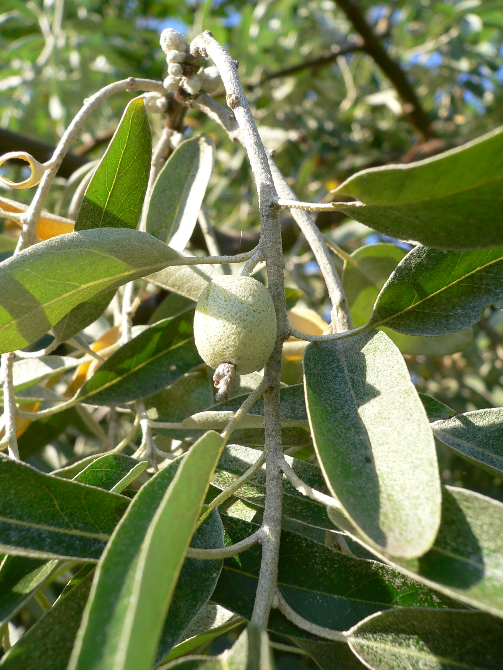 Oleaster Elaeagnus angustifolia about 5 m high, Görlitzer Park, Berlin-Kreuzberg, Germany.